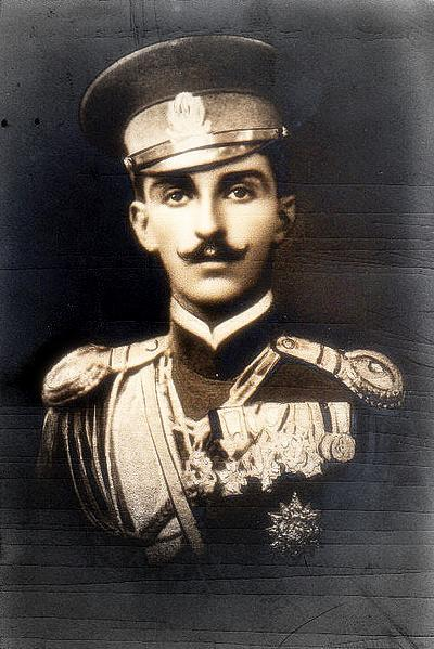 His Royal Highness prince Peter Stephen Petrović-Njegoš of Montenegro in 1909. Photo from National museum of Montenegro in Cetinje, 2011.